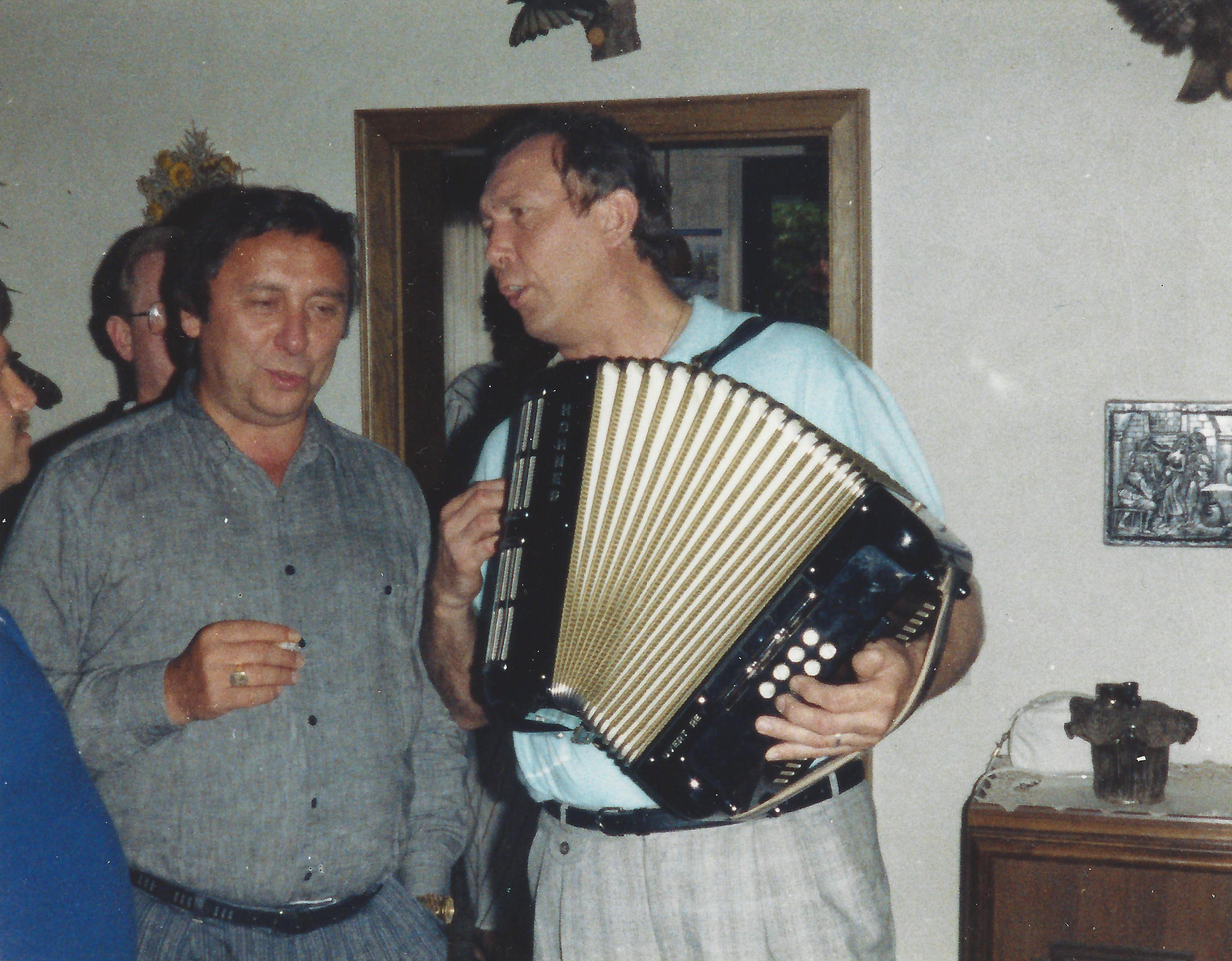 Günter Siebert (left) - german carom billiards player together with the former german national coach Werner Nahrun († 10 April 2012)